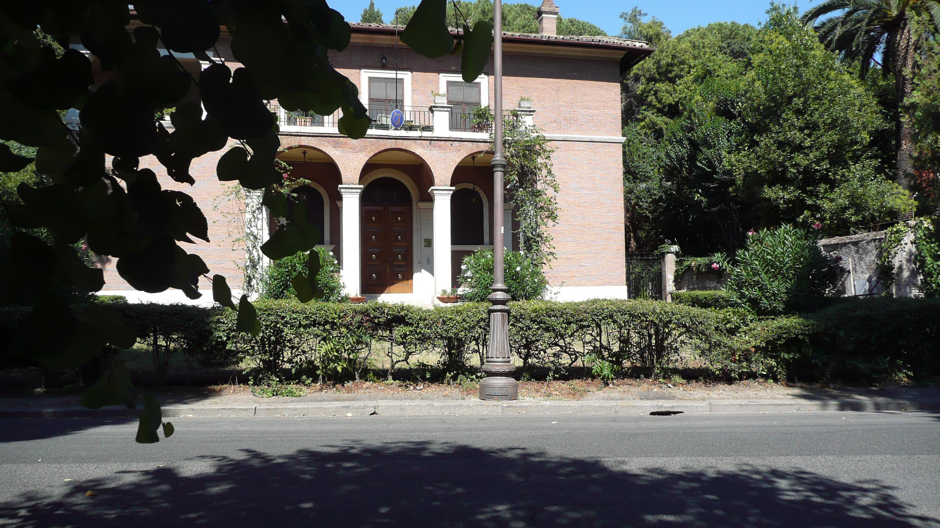 Ireland Embassy Rome.SVN